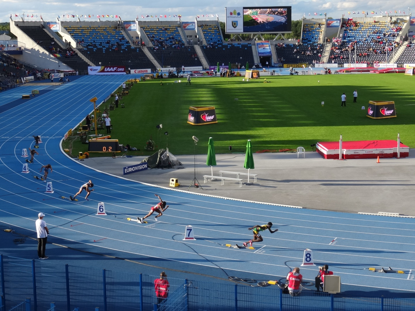 2016 IAAF World U20 Championships in Bydgoszcz, 400m women qualifications